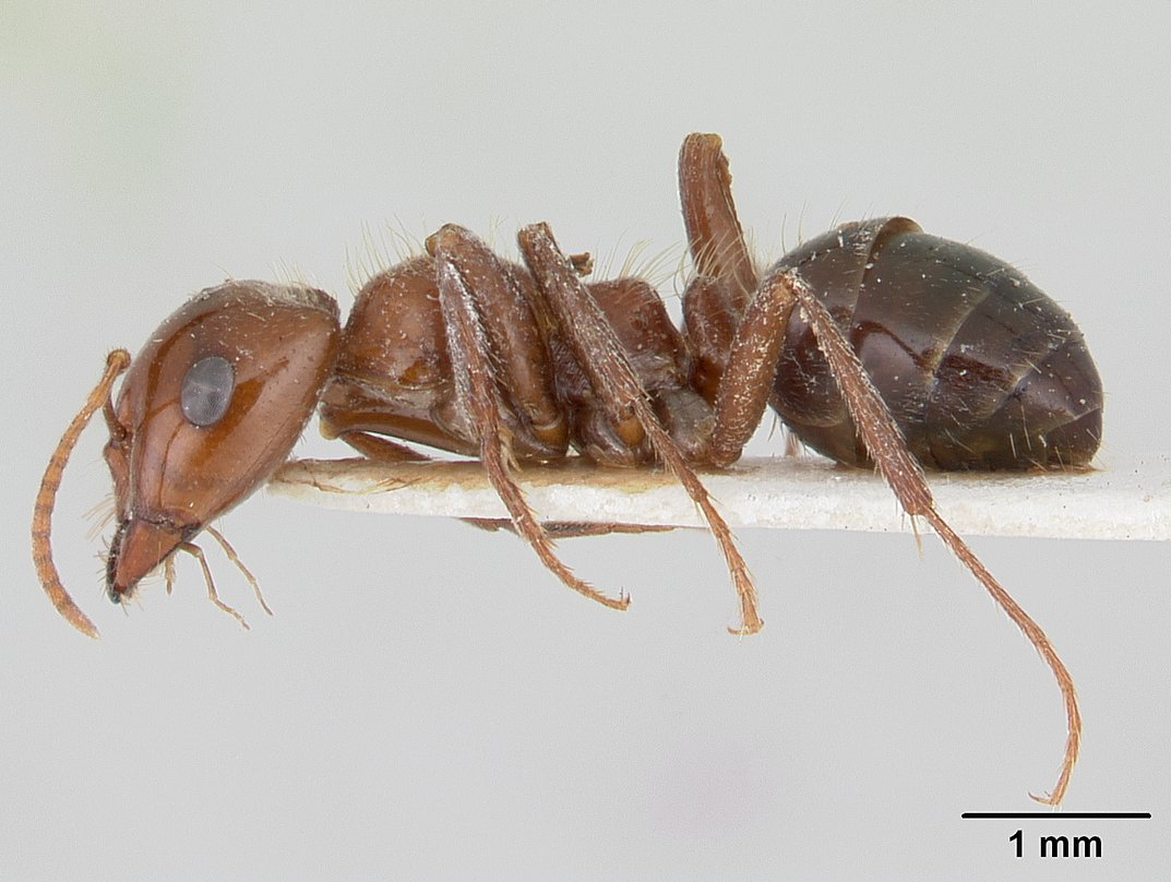 Profile view of ant Rossomyrmex proformicarum specimen casent0178514.